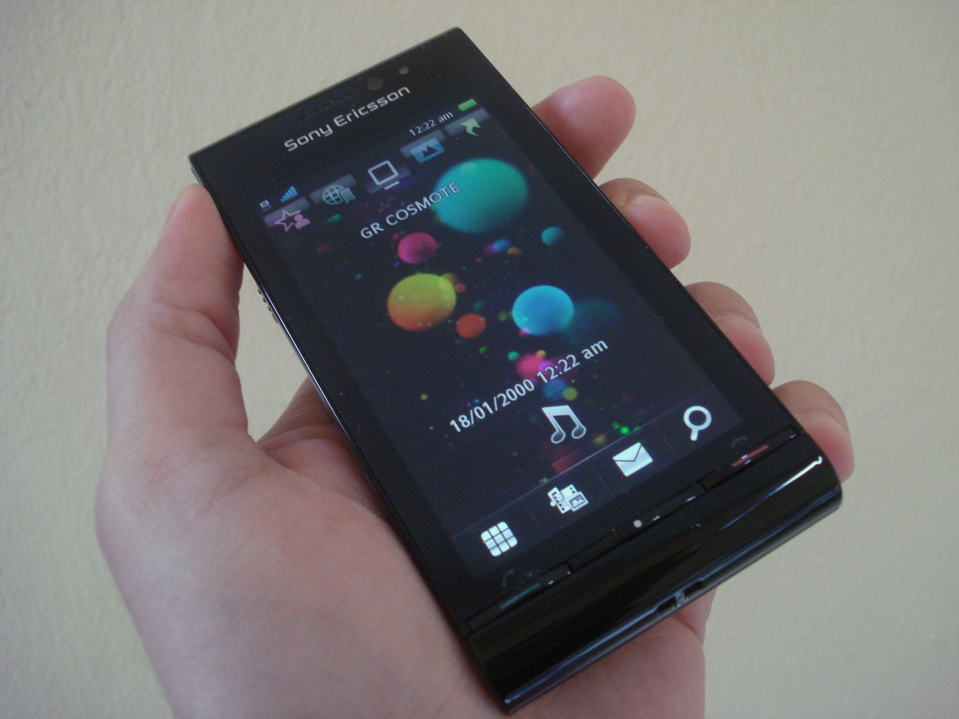 Sony Ericsson™ Satio™ Phone